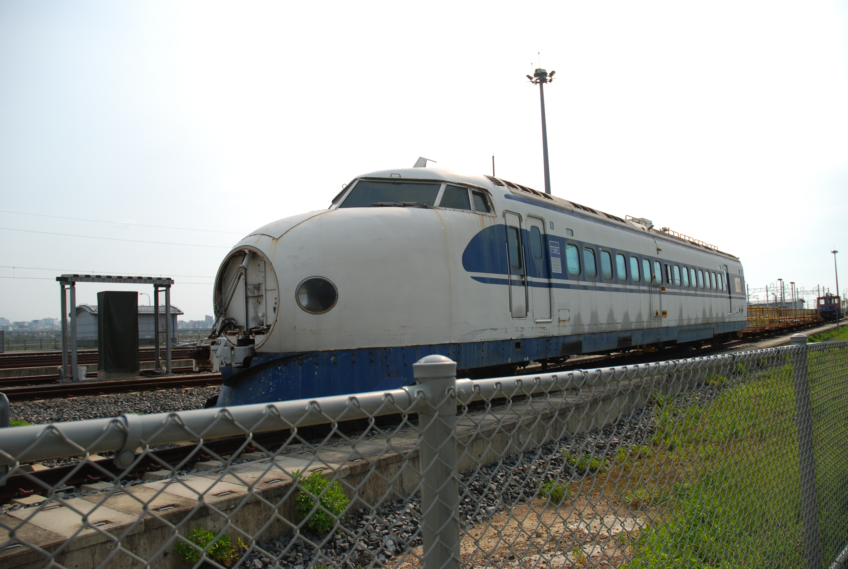 Taiwan High Speed Rail Structure Gauge Test Car 21-5035